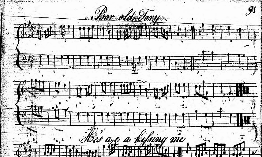 Page from Henry Beck's 786 1manuscript Flute Book, showing the well known fife tune Poor Old Tory a.k.a. The Rogue's March